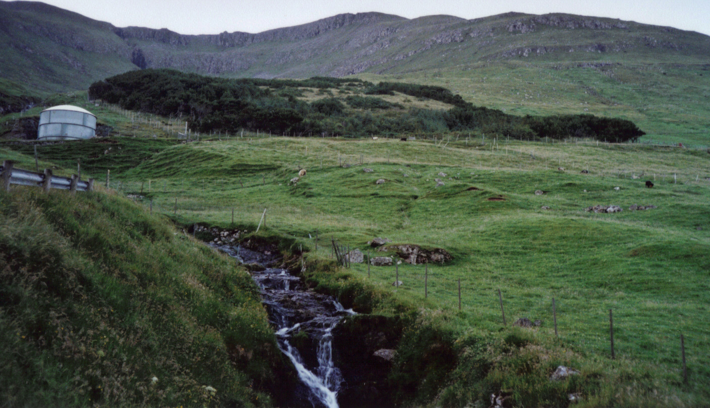 Forest near Vágur, Faroe Islands